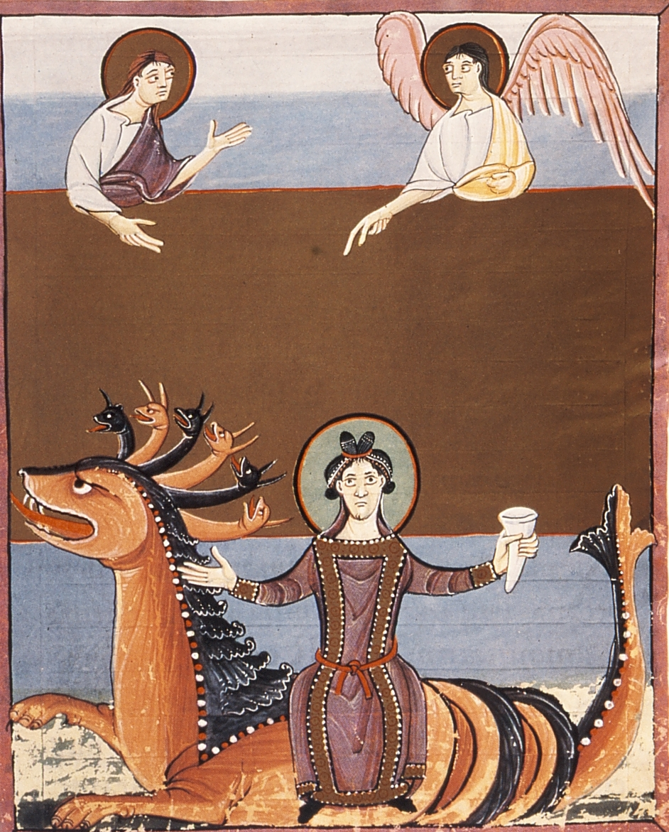 The Whore of Babylon